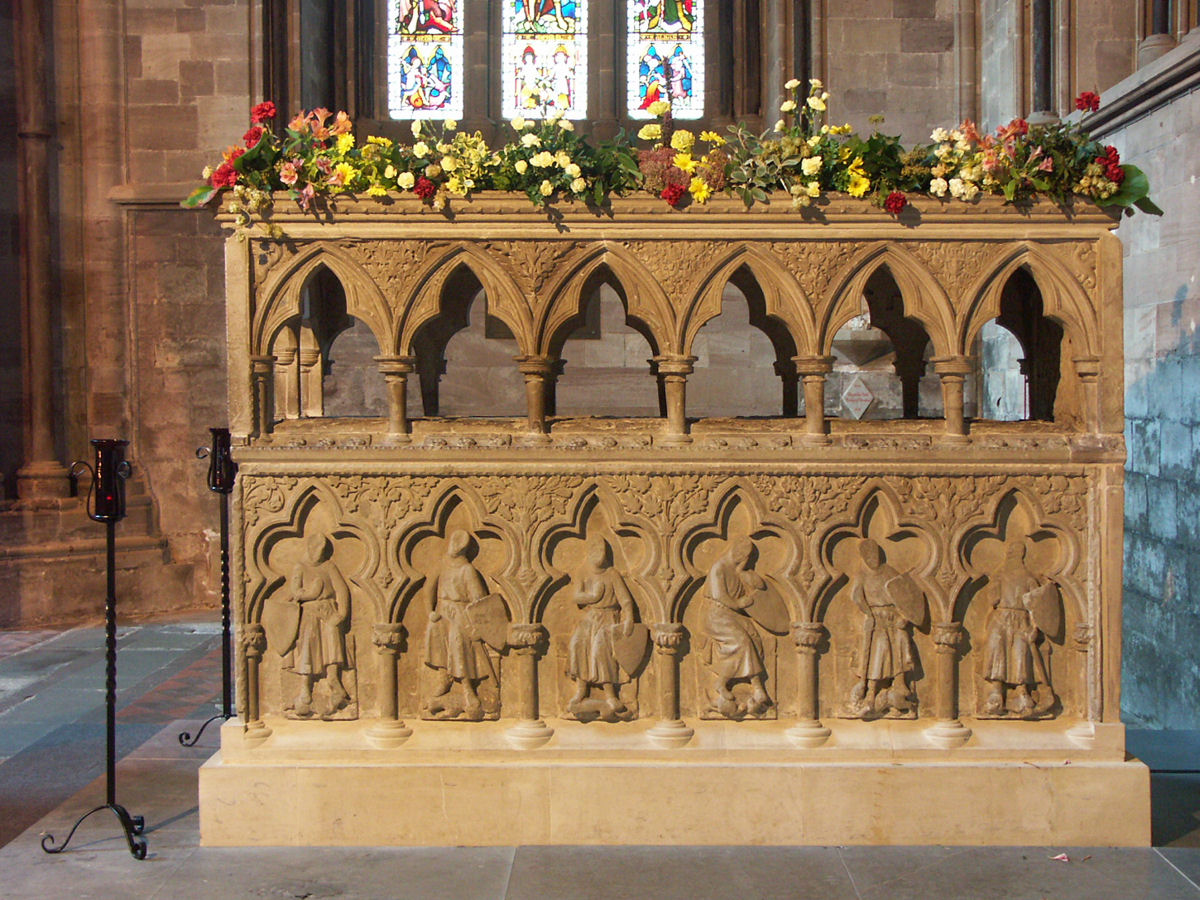 Hereford Cathedral, England. This is Thomas Cantilupe's tomb, according to this page. From Fisher, A. Hugh, The Cathedral Church of Hereford, London, 1898, p.37[1]: "The North Transept. Passing through the north arch of the tower we come into some of the most interesting parts of the Cathedral. The transept beyond was entirely rebuilt for the reception of the shrine of Bishop Cantilupe, when his body was removed from the Lady Chapel in 1287, after the miracles reported at his tomb had already largely increased the revenues of the Cathedral. The unusual shape of the arches and the fine and effective windows of this transept render it one of the most distinguished English specimens of the style".